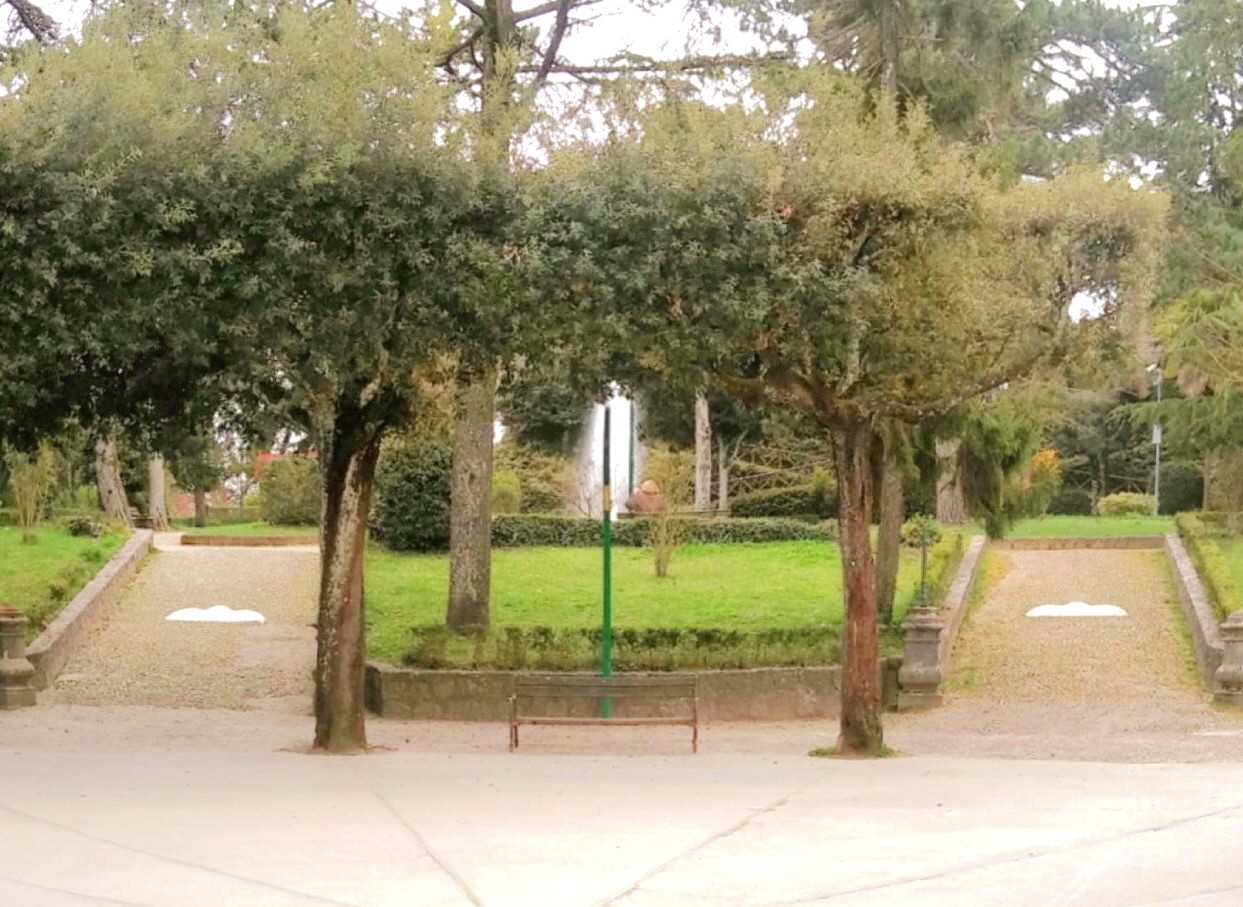 Villa Comunale park in Ariano Irpino, Italy